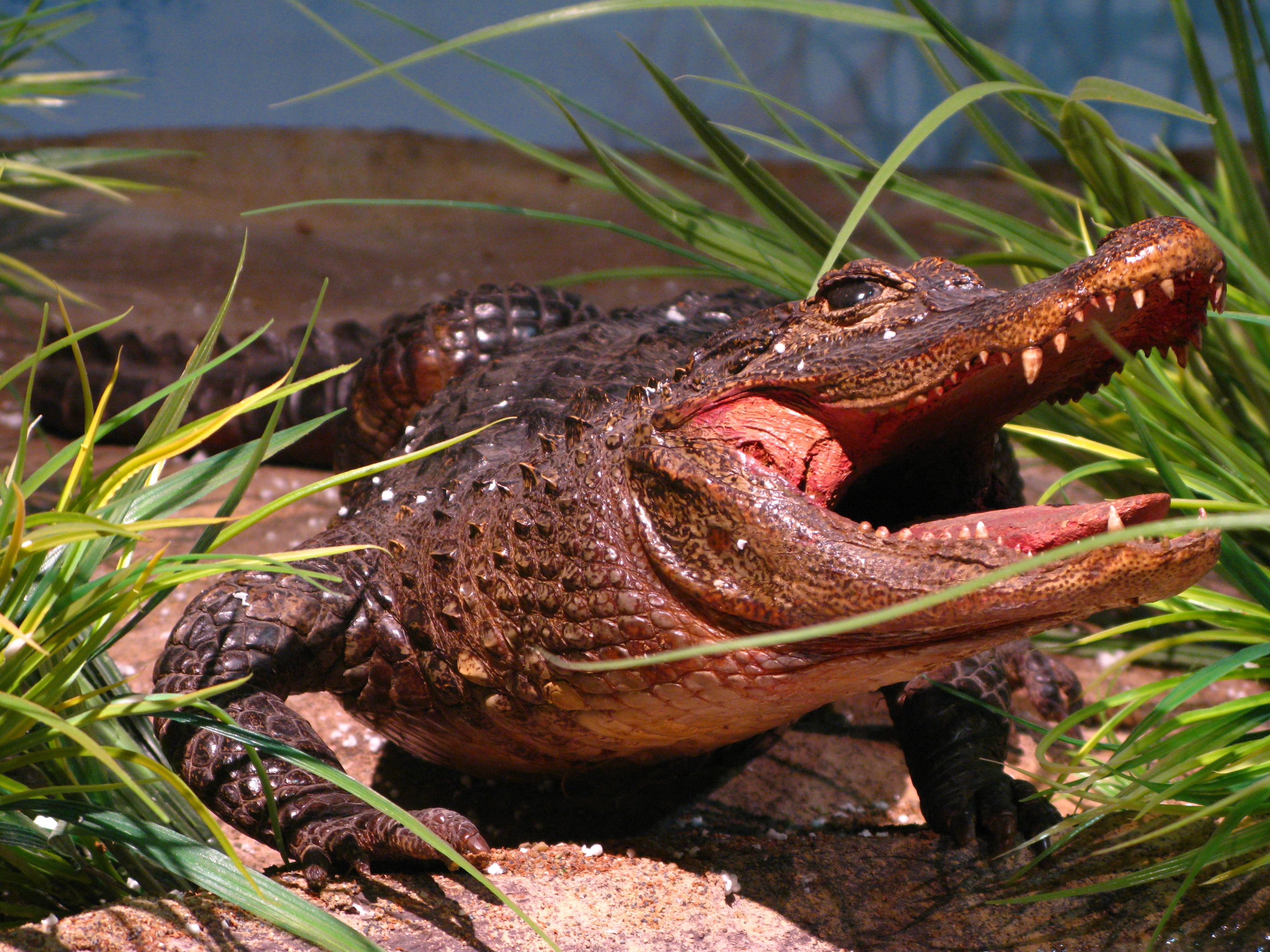 A Alligator sinensis specimen.